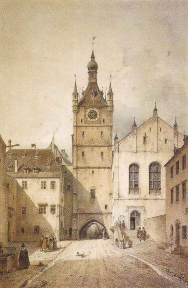 Talburgtor and Old Town Hall in Munich